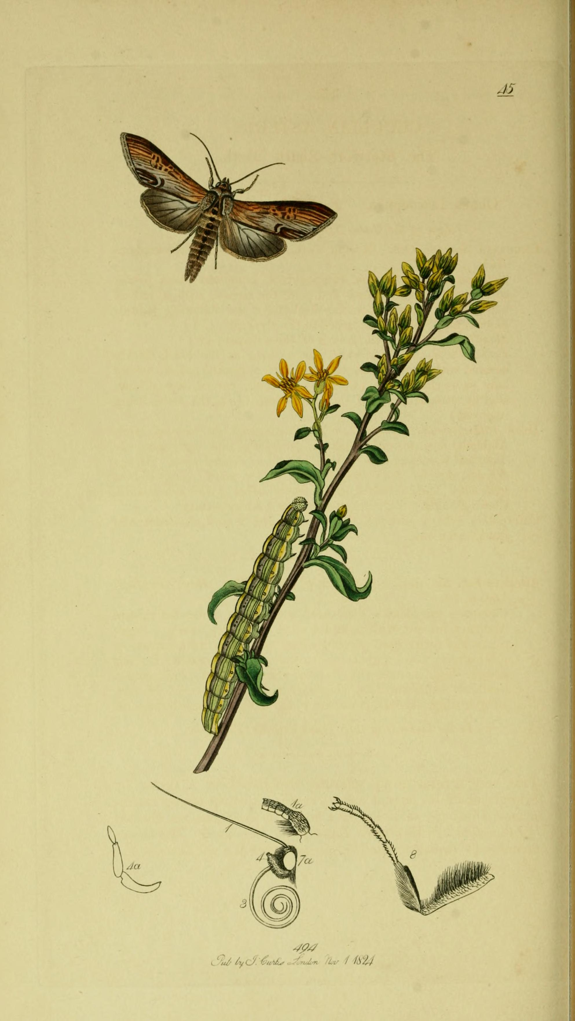 An illustration from British Entomology by John Curtis. Cucullia asteris (Starwort Shark).